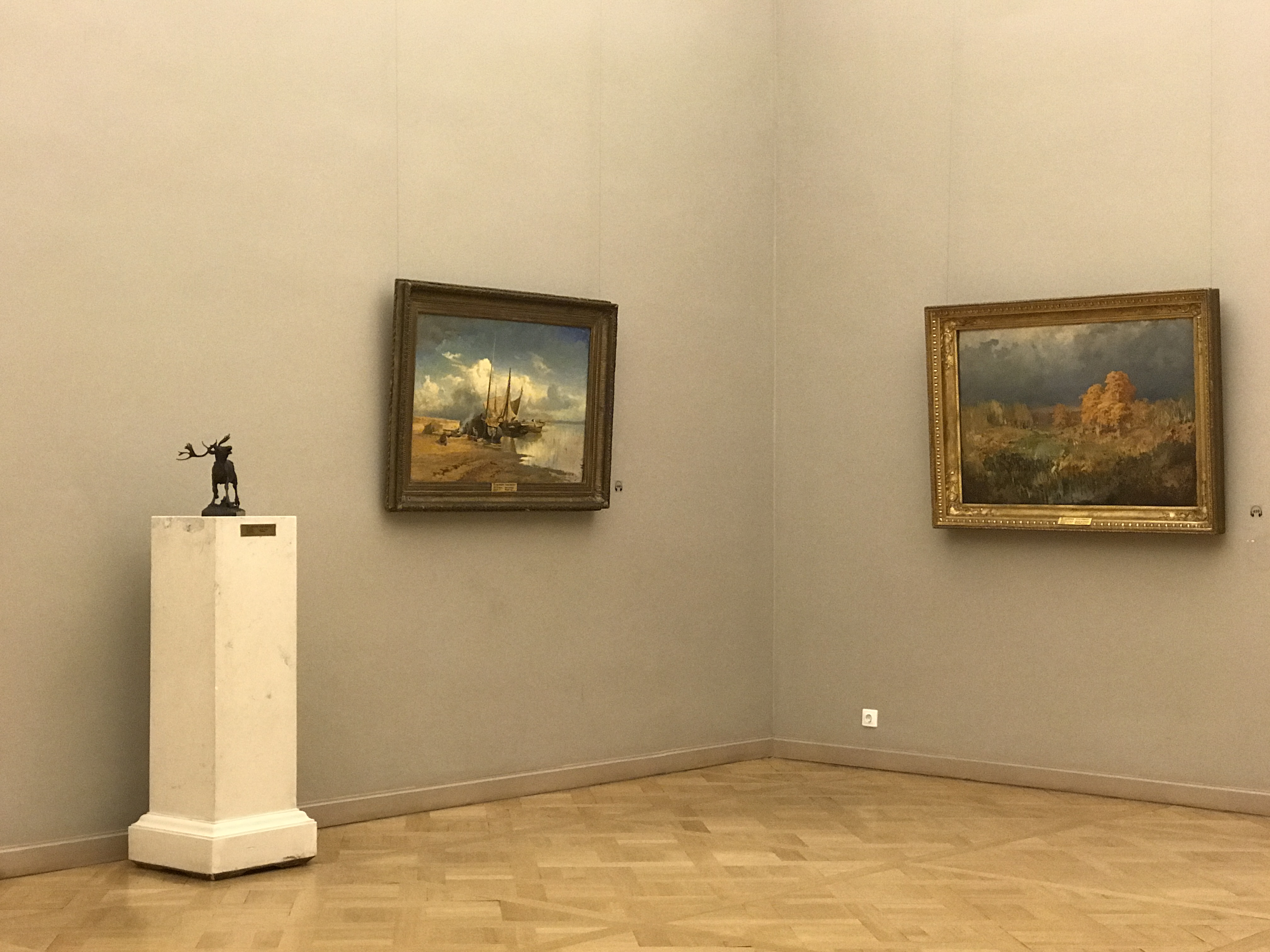 "View of the Volga. Barques" (painting by Fyodor Vasilyev, 1870) and "Marsh in a forest. Autumn" (painting by Fyodor Vasilyev, 1872/1873) in the State Russian Museum